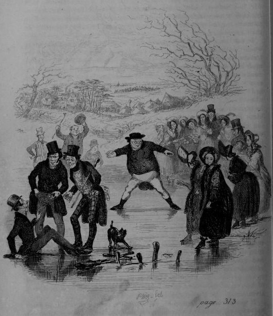 Hablot Knight Browne - The Pickwick Papers, Pickwick at the slide